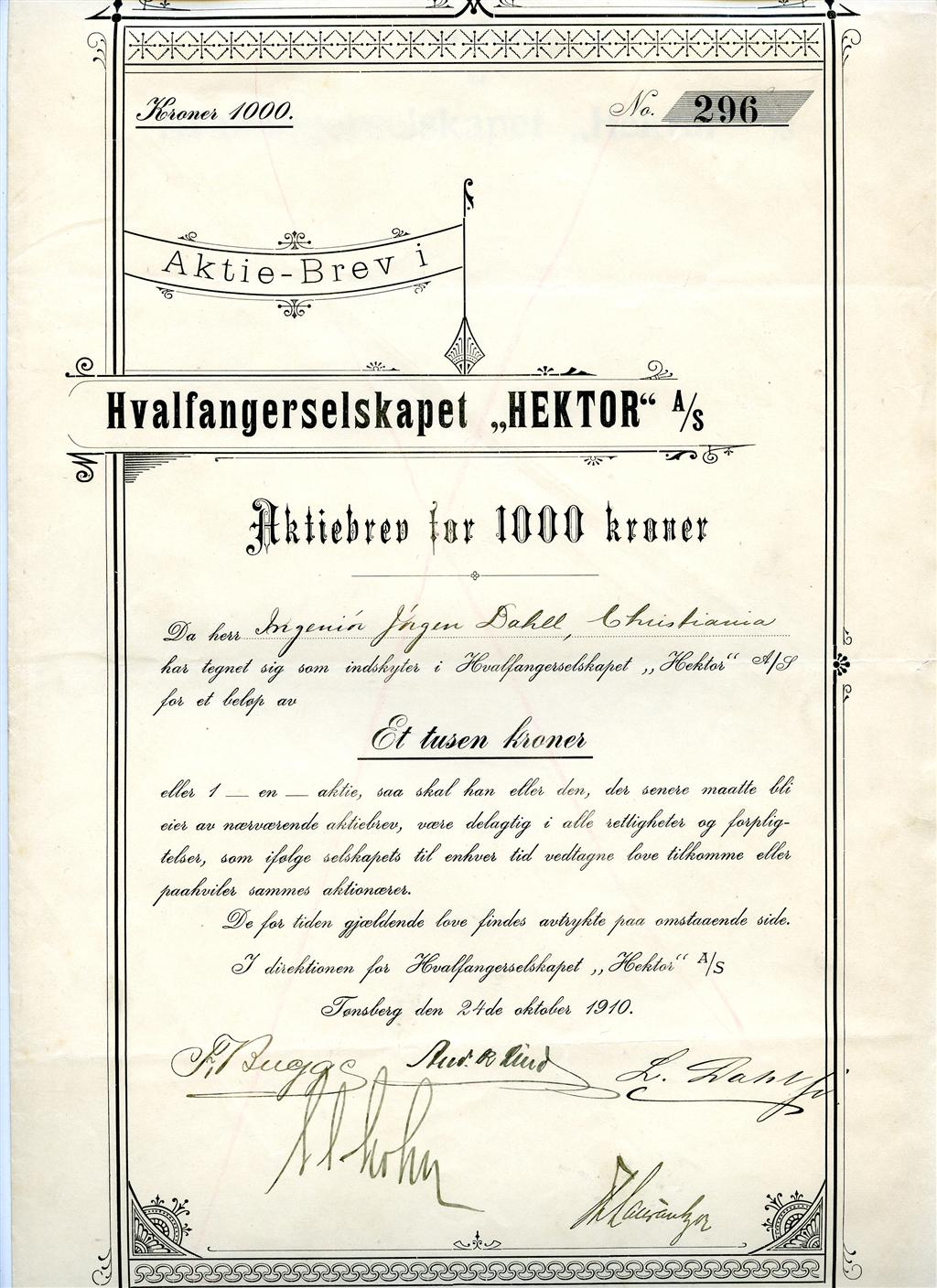 Stock certificate for the Norwegian whaling company Hektor.